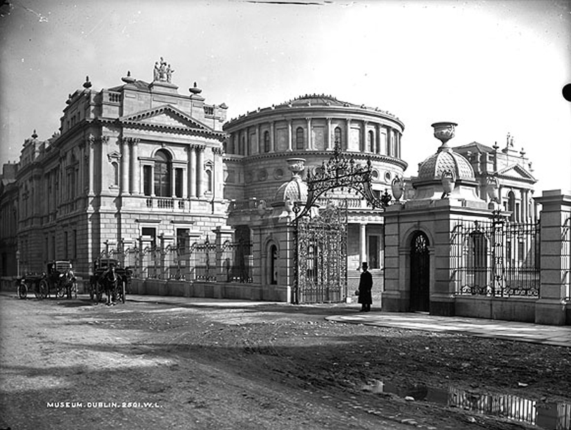 Thought that it was time to include a photo of us! This is the National Library of Ireland building on Kildare Street, Dublin. We first opened to the public on Friday, 29 August 1890. The next day's Irish Times, recorded that the opening was "a very brilliant affair in every way. There was an enormous concourse of visitors, specially invited - a brilliant assemblage, in truth, of learning and beauty, and of personages of distinction in the social and official world of this country." Date: Circa 1895 NLI Ref.: LROY 2501